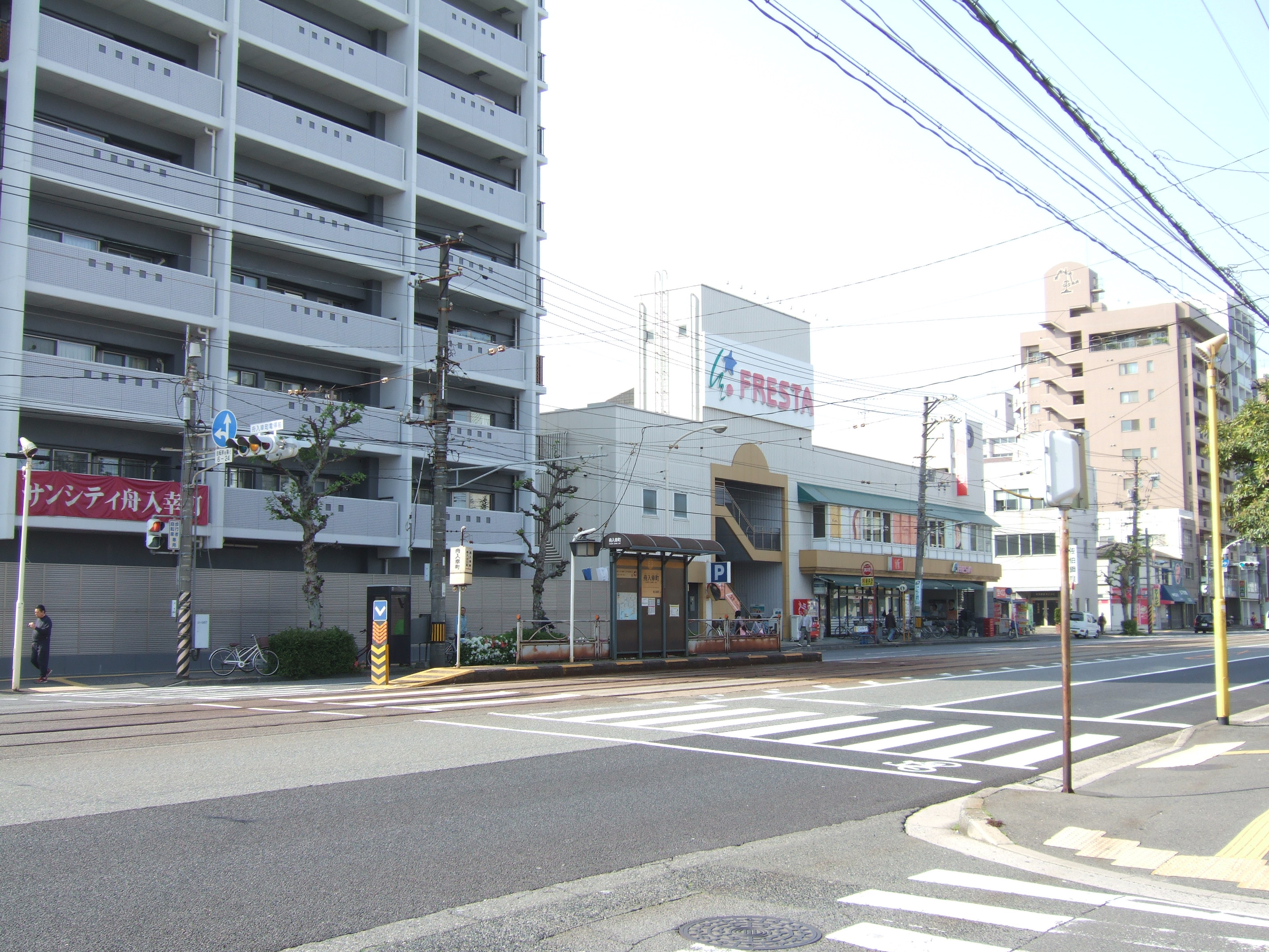 Funairi-Saiwaicho Tram Stop Platform for Yokogawa Station and Hiroshima Station on Hiroshima Electric Railway (Hiroden) Eba Line